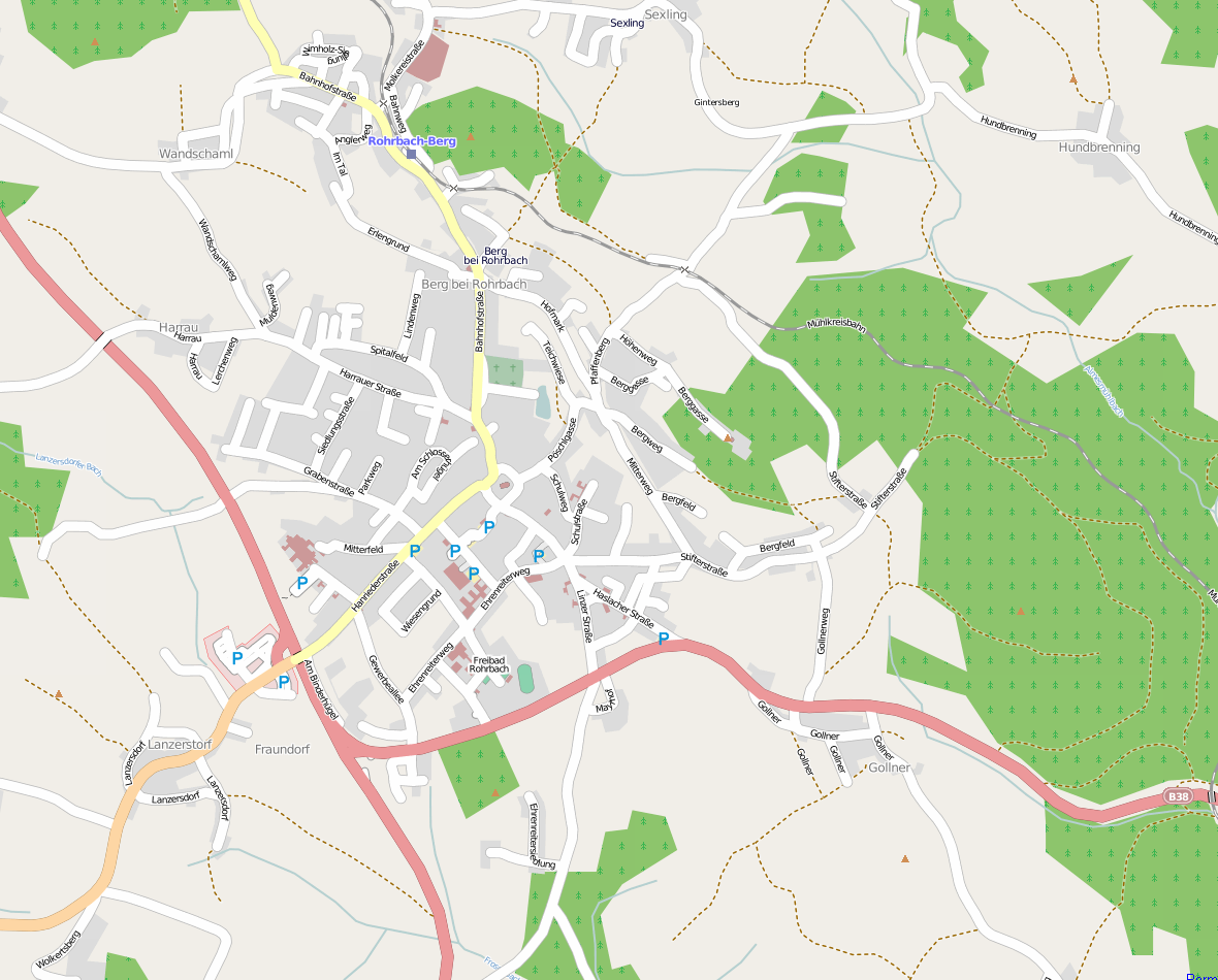 Map of the City of Rohrbach, Upper Austria